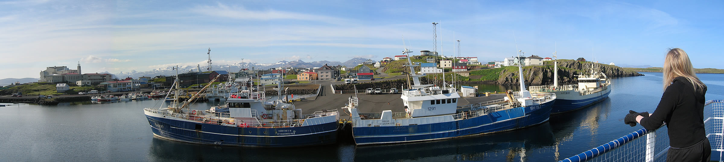 The village Stykkishólmur in Breiðafjörður, Iceland seen from the ferry Baldur. photo by Salvor Gissurardóttir in June 2006